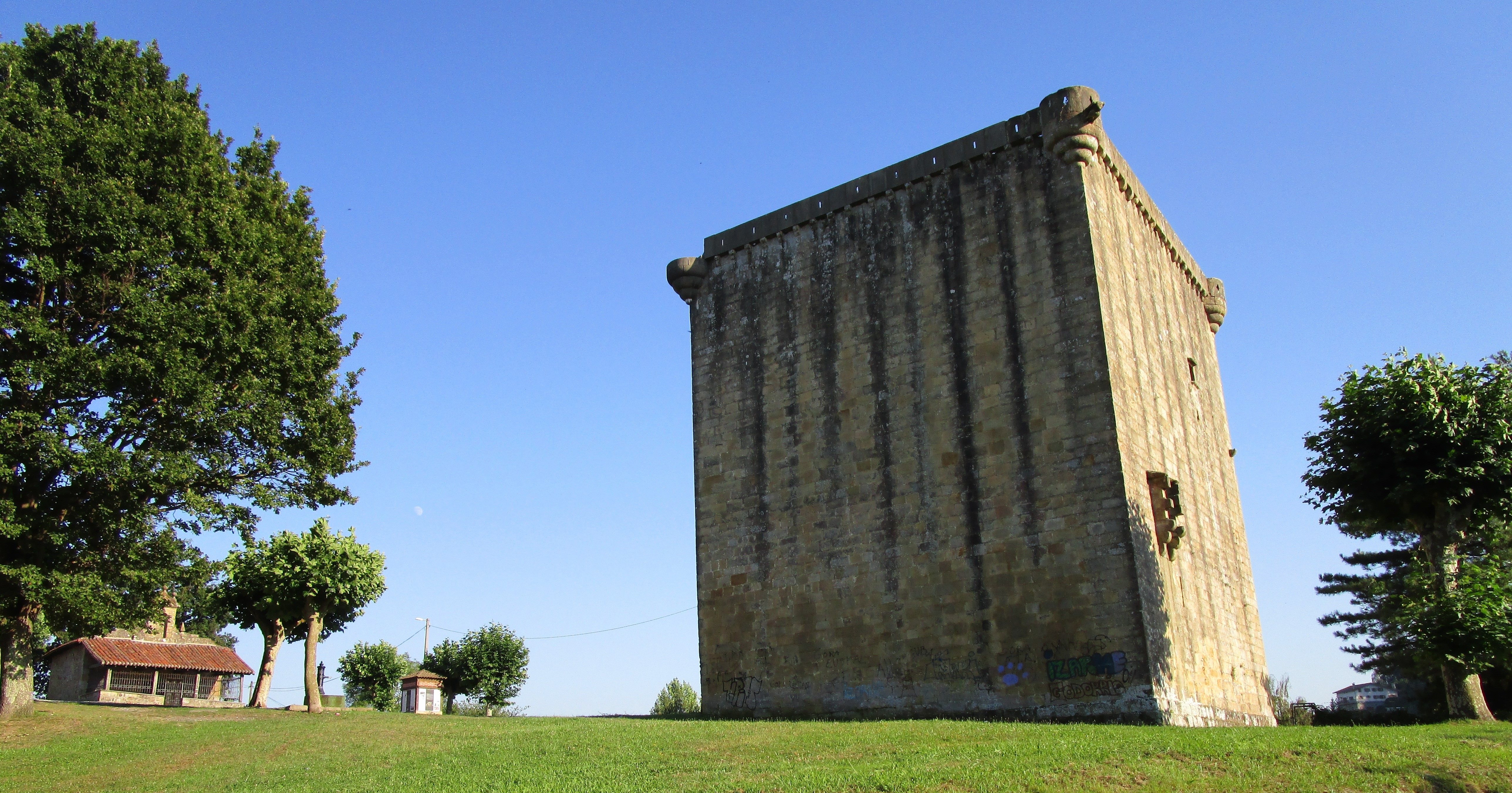 Saint Anthony's 'Hermitage' (Chapel) and Tower House of Martiartu in Erandio, Biscay, Basque Country, Spain. August 2016.